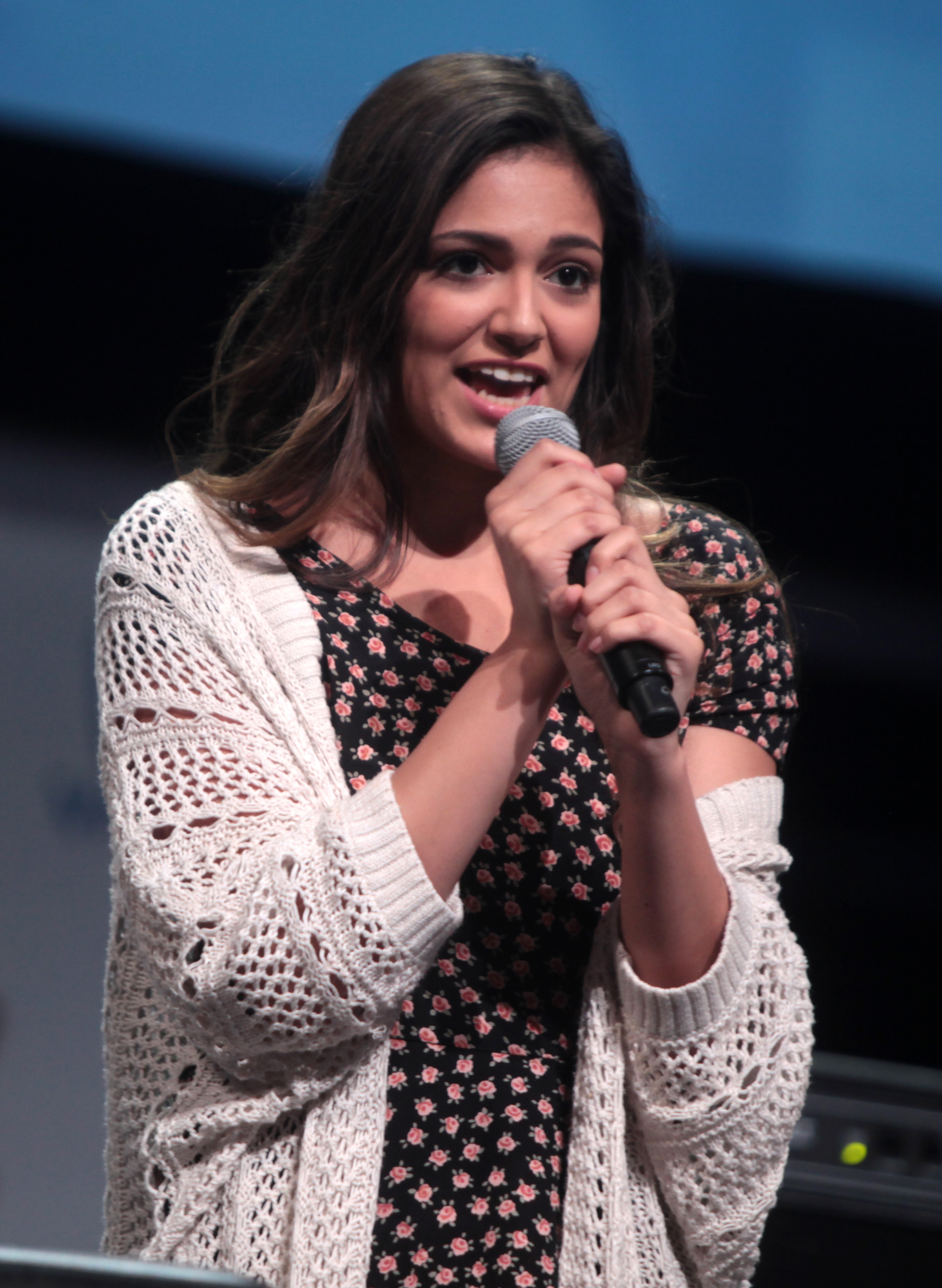 Bethany Mota speaking at the 2014 VidCon on June 28, 2014.